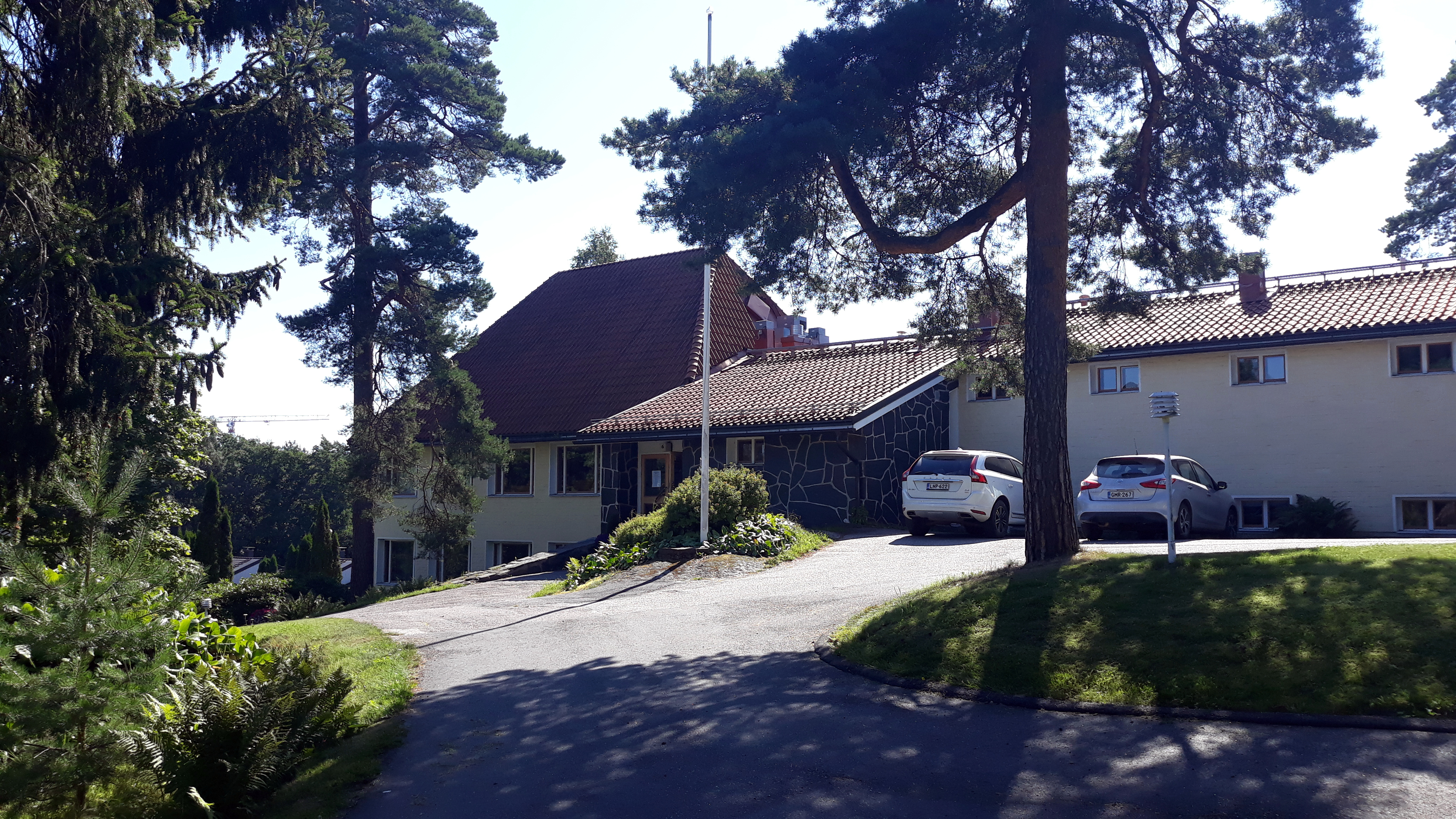 Laajasalo folk high school in Laajasalo, Helsinki.